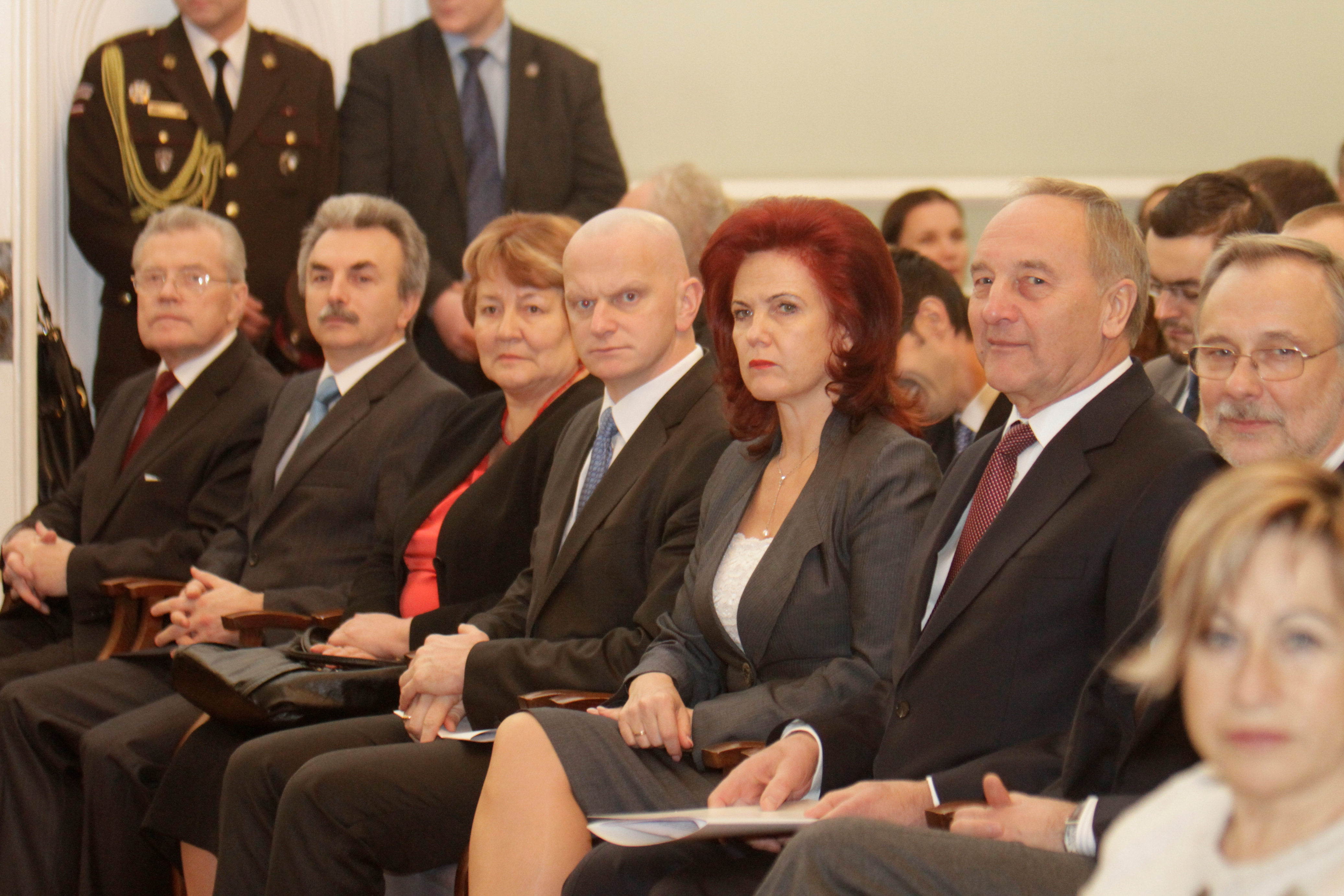 Dalība grāmatas „Latvijas Republikas Satversmes komentāri. VIII. nodaļa. Cilvēka pamattiesības” atvēršanas svētkos